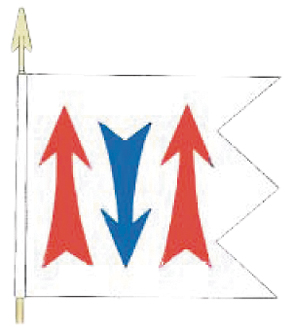 The Colour of 5th Mine Warfare Squadron, Finnish Navy. The main emblem is a stylized depiction of underwater explosion